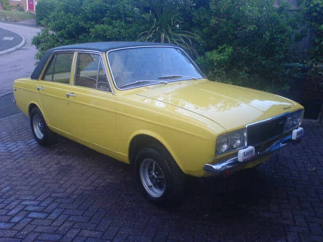 This is a picture of a true and restored Hillman Hunter GLS. The year of manufacture is 1974. The GLS has a 1725cc Holbay engine with twin DCOE 40 Weber carburettors.